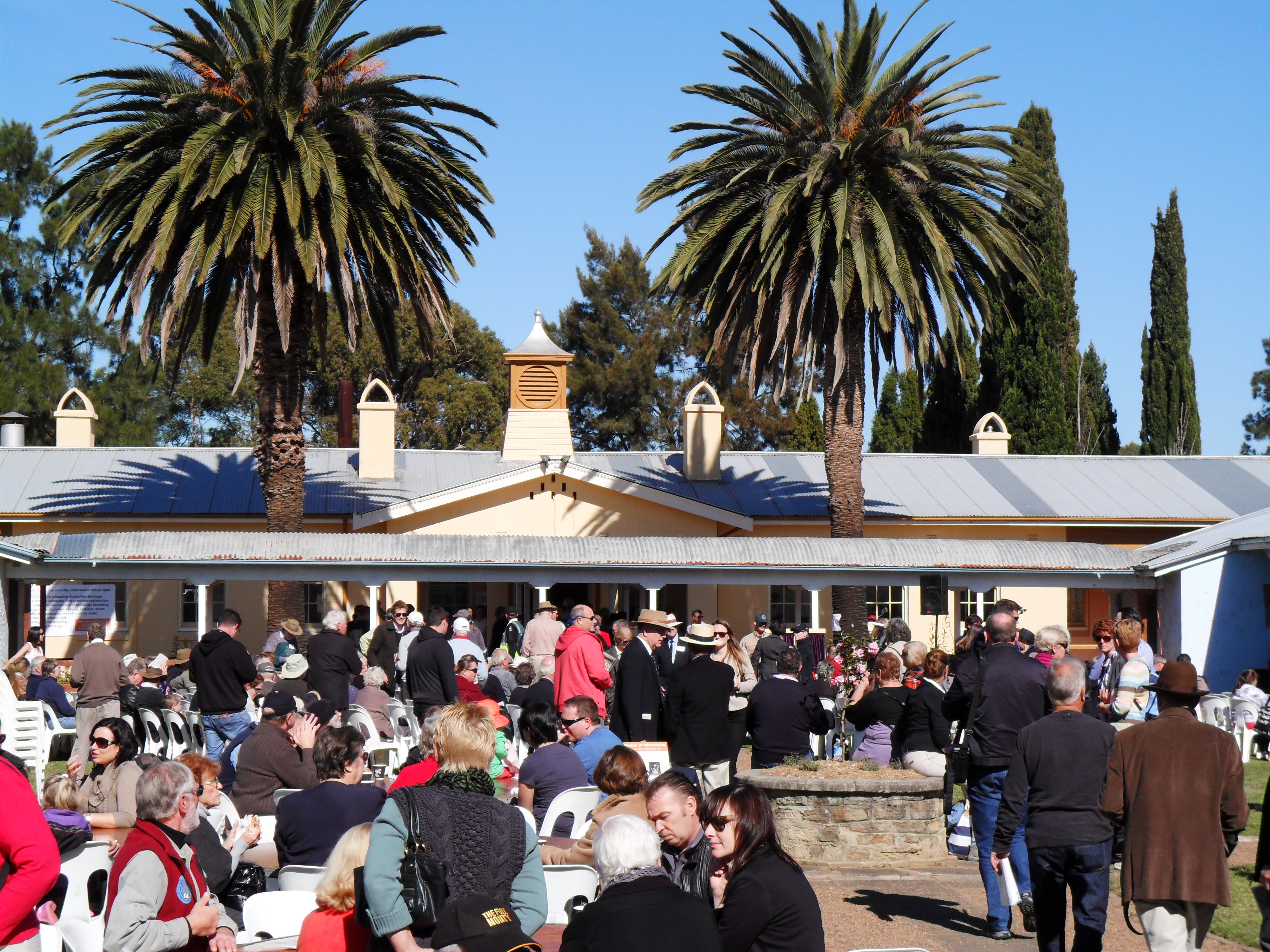 Scheyville Training Farm Cantenary 2011. Scheyville NSW, location of Officer Training Unit and Dreadnought Boys training farm, also immigration centre.